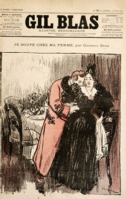 "Je soupe chez ma femme" ("I Sup with My Wife"). Cover illustration by Steinlen for a story from Monsieur, madame et bébé" by Gustave Droz (1832-1895) published in the Gil Blas magazine. Undated lithography circa 1870.